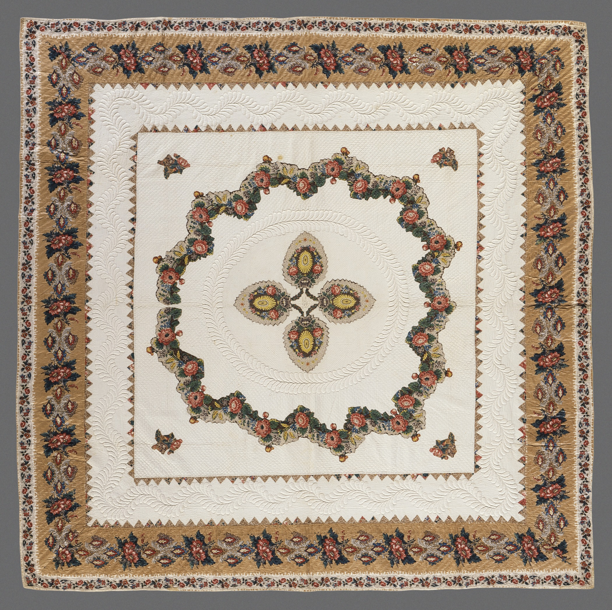 United States, 1846 Textiles; quilts Cotton and glazed chintz, pieced, quilted, stuffed and appliquéd in 'broderie perse' technique Purchased with funds provided by Philip and Colleen Kirst (M.87.125) Costume and Textiles